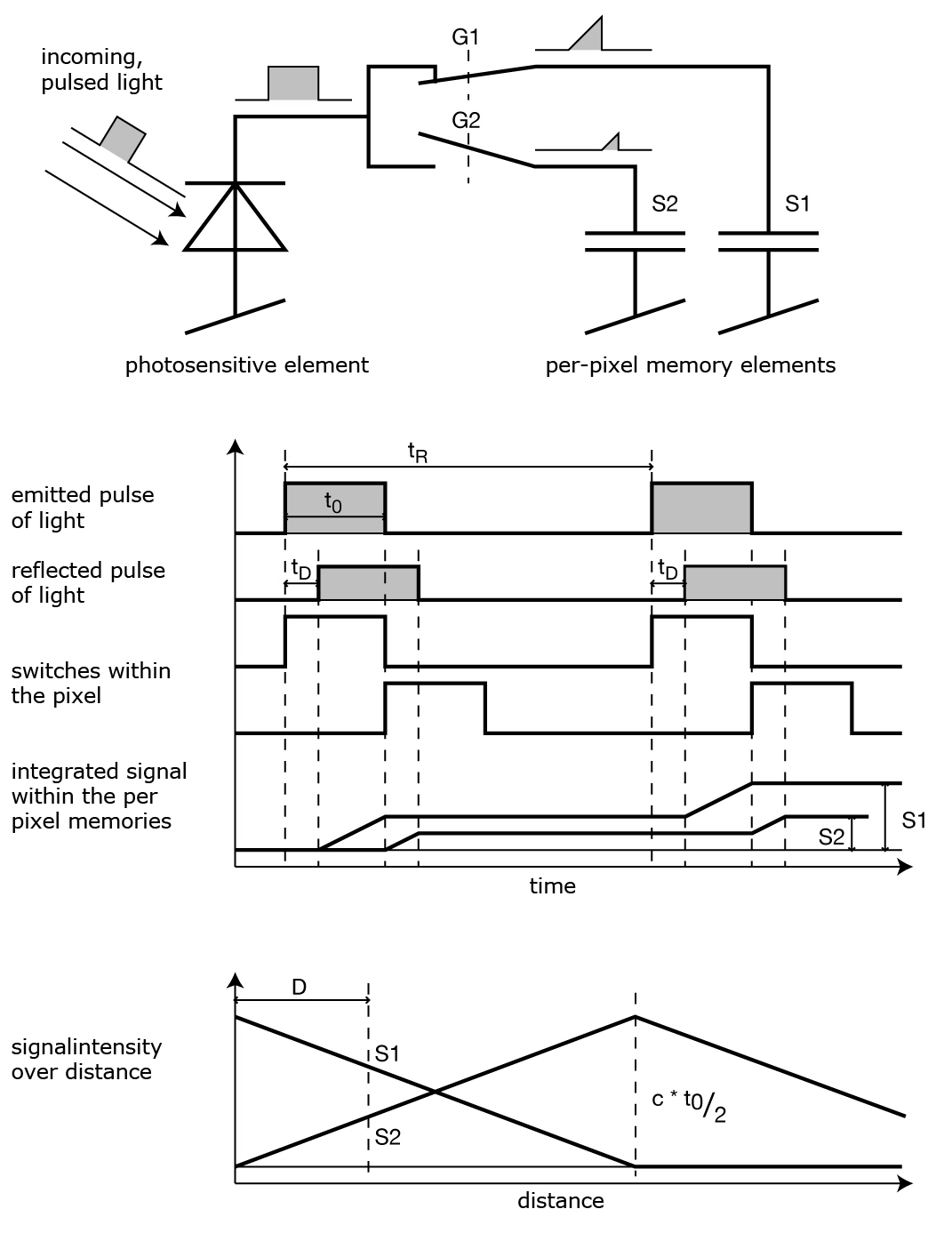 Principle of TOF-cameras